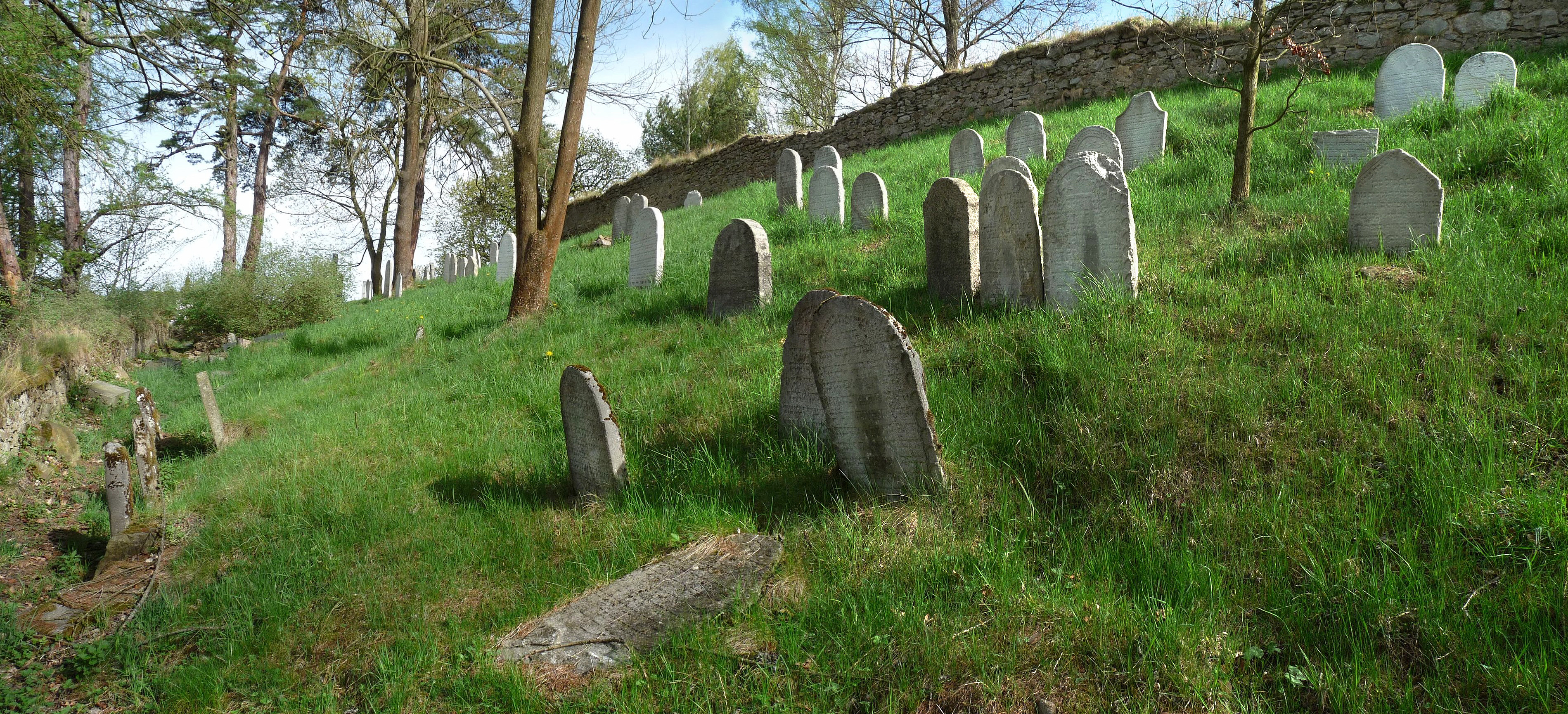 Jewish cemetery in Kolinec, Klatovy District, Czech Republic